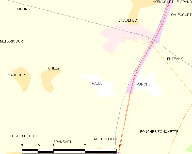 Map of French municipality Hallu